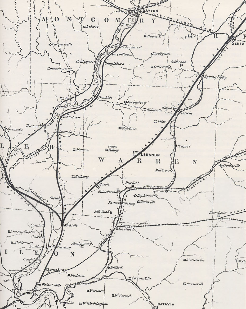 Map of the Dayton and Cincinnati (Short Line) Rail Road